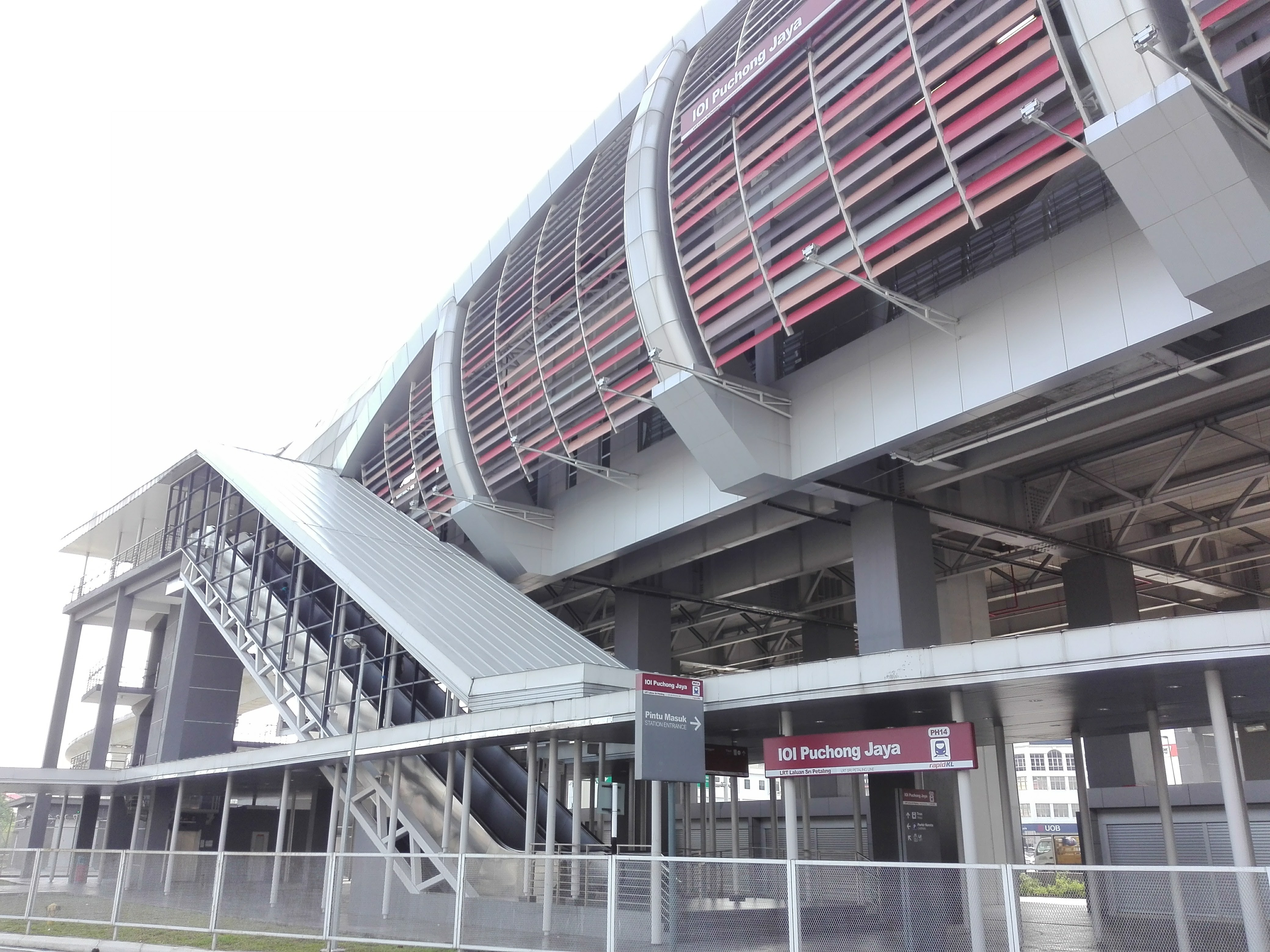 The station from ground level with the signboard.